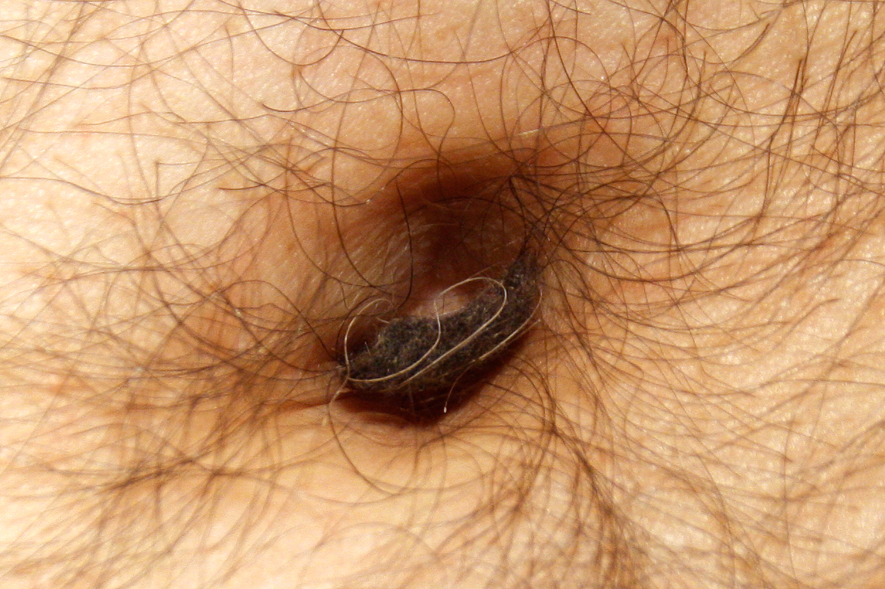 Navelpluis